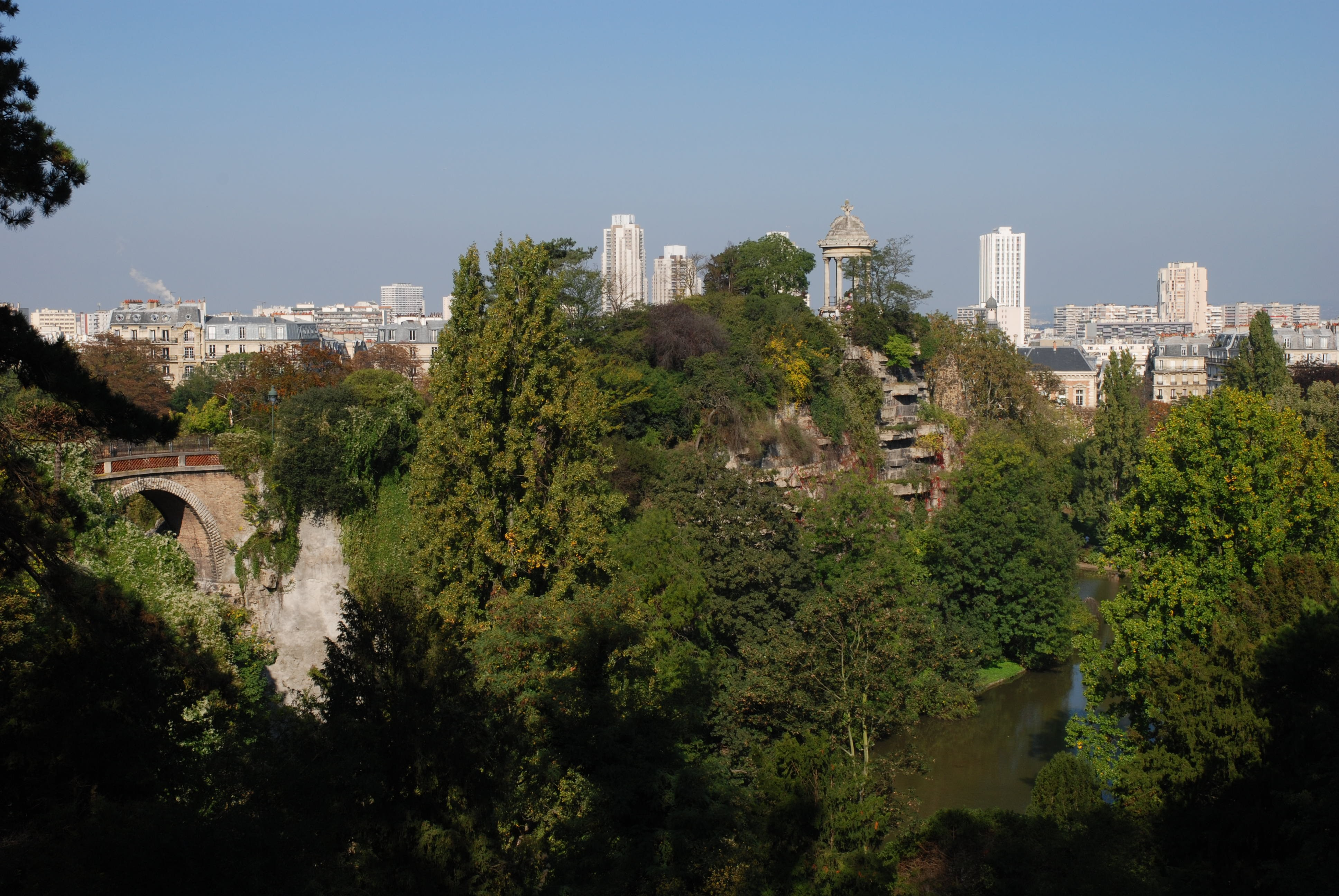 Parc des Buttes Chaumont, from South Side